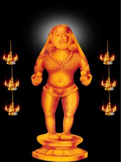 neayyattinkara sreekrishna swamy